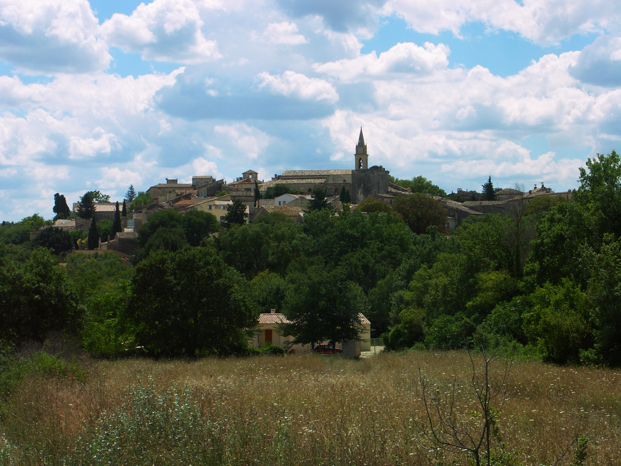 Blauzac